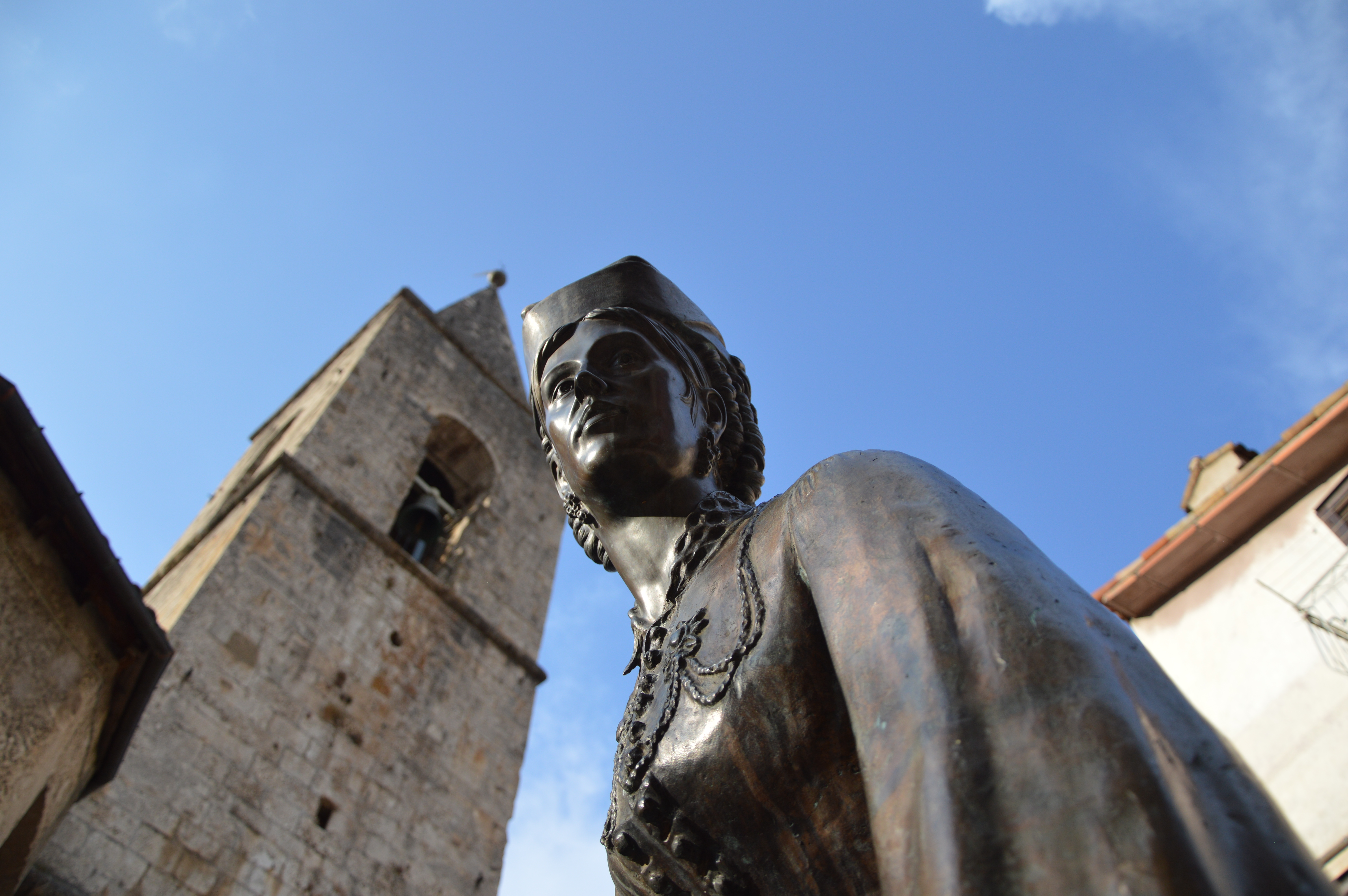 Dettaglio statua